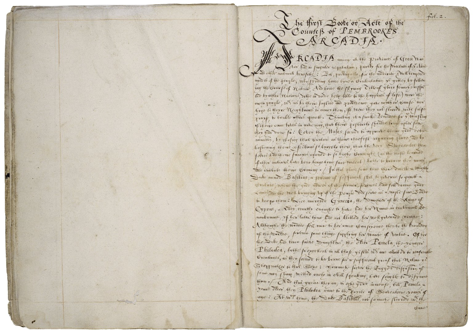 A scribal transcript of the unrevised version of the unrevised version of Sir Philip Sidney's Arcadia, transcribed by Richard Robinson.